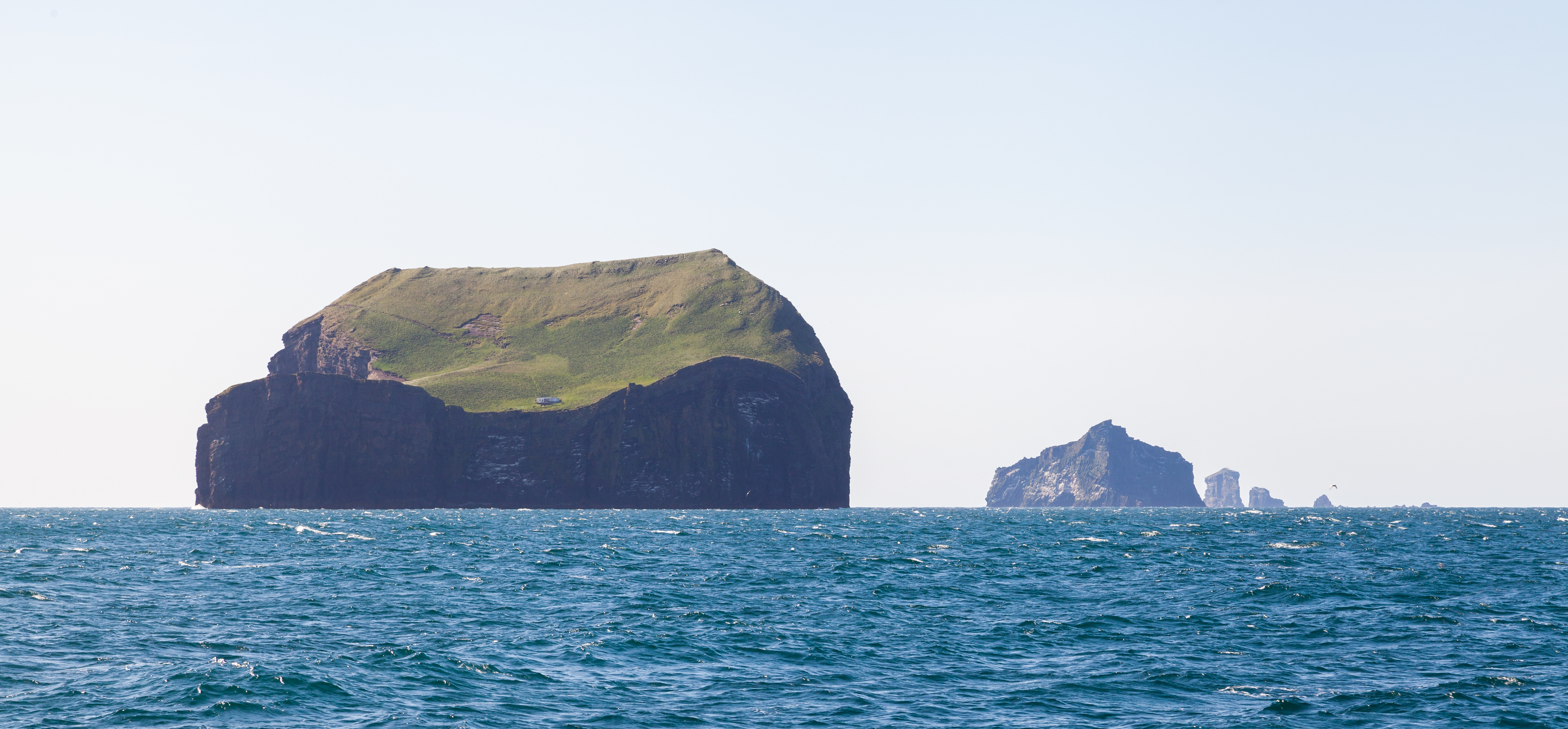 Suðurey, Hellisey, Súlnasker and Geldungur islands, Westman Islands, Suðurland, Iceland